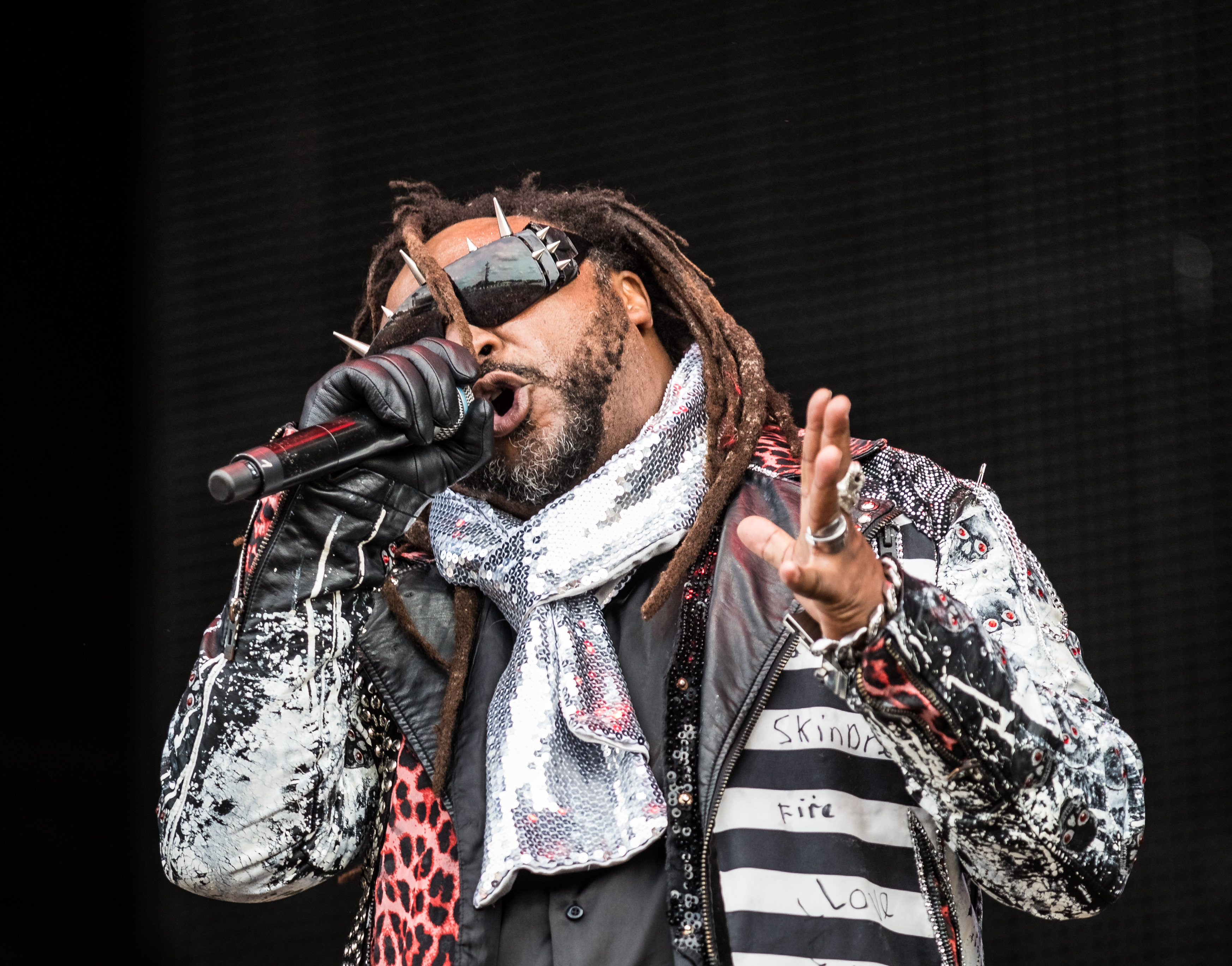 Skindred - Wacken Open Air 2018